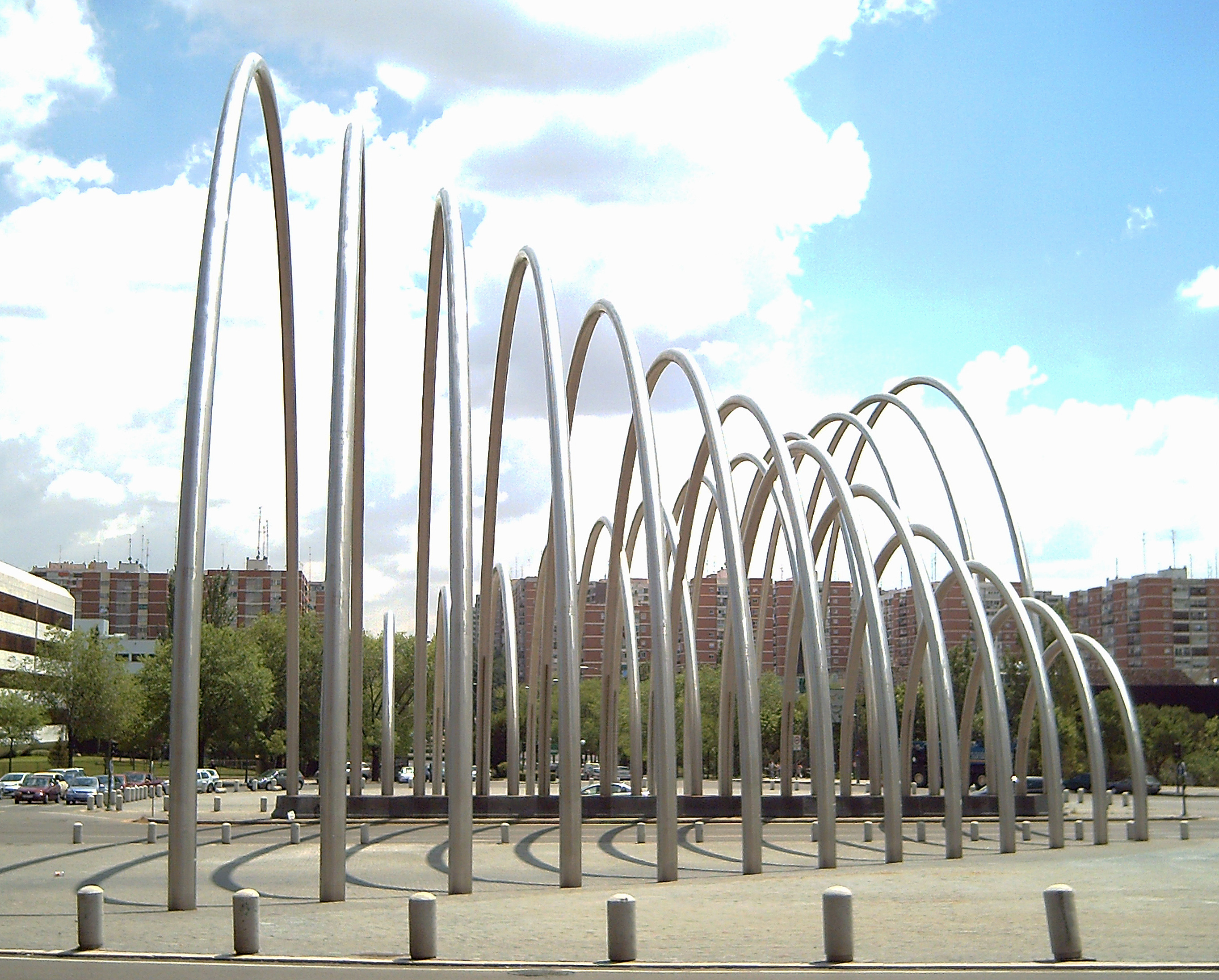 Puerta de la Ilustración ("Gate of Enlightenment") in Madrid (Spain).